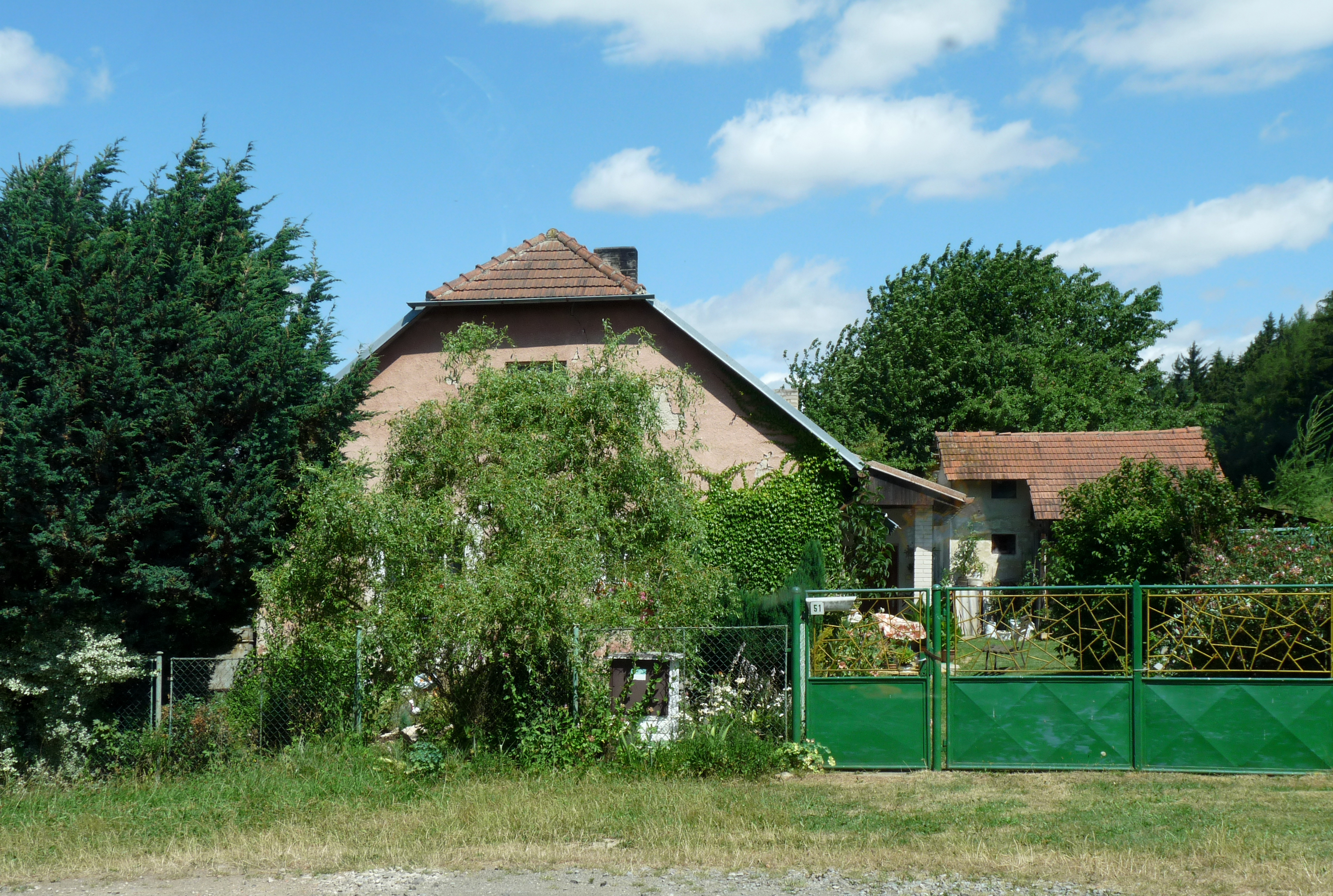 House No 51 in the village of Pavlov-Hutě, Havlíčkův Brod District, Vysočina Region, Czech Republic.